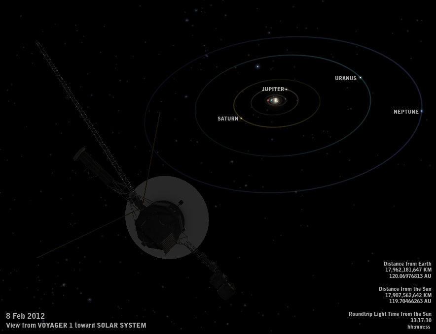 Simulated view from Voyager 1 looking toward the Sun (Note: Planets and their orbits are shown here but are not visible due to great distances)